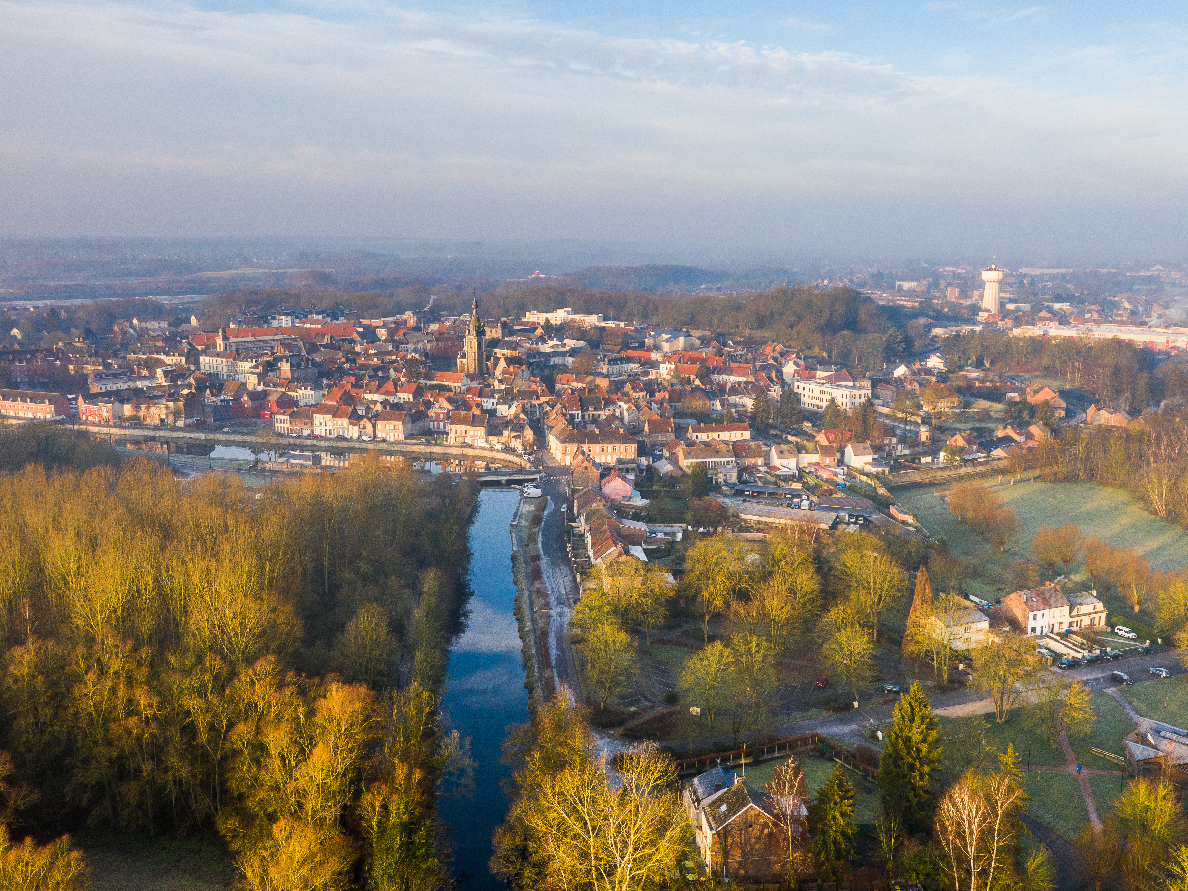 Condé-sur-l'Escaut - aerial view with morning fog